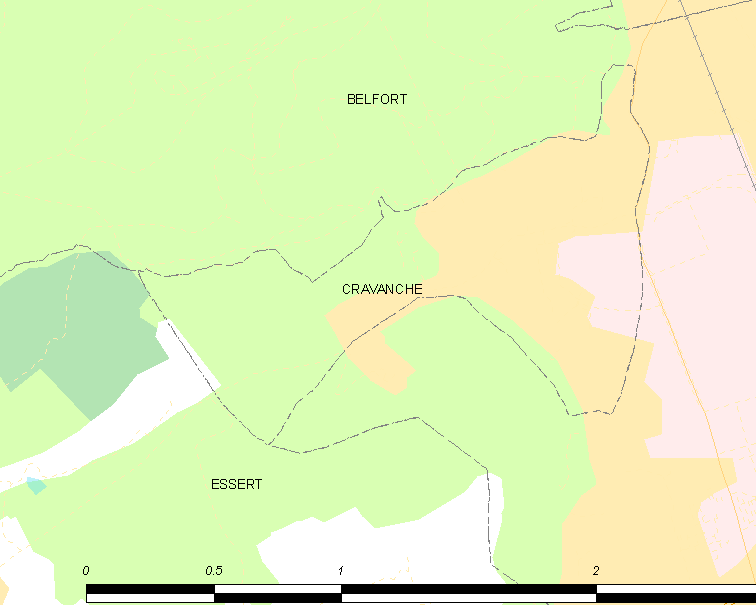 Map of French municipality Cravanche